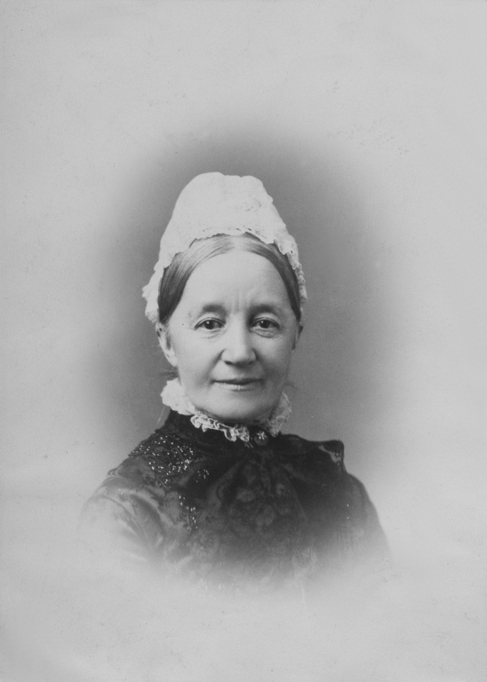 Mrs. John H. R. Molson, Montreal, QC, 1881 Notman & Sandham 1881, 19th century Silver salts on paper mounted on paper - Albumen process 15 x 10 cm Purchase from Associated Screen News Ltd. II-63273.1 © McCord Museum